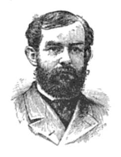 James Ogilvie Clephane, an American court reporter and venture capitalist who was involved in improving, promoting and supporting several inventions